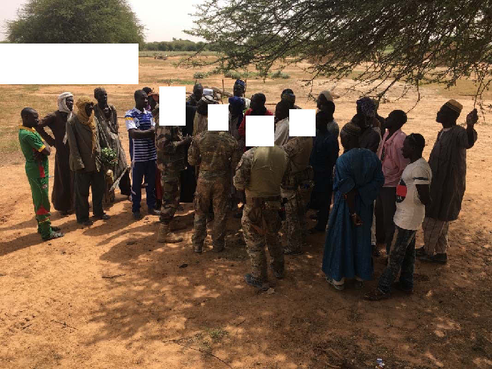 Approximately 15 minutes into the halt [in the Tongo Tongo village], as Nigerien forces were cooking their breakfast, a village elder later identified as [????] approached Team OUALLAM accompanied by 27 military-aged men.